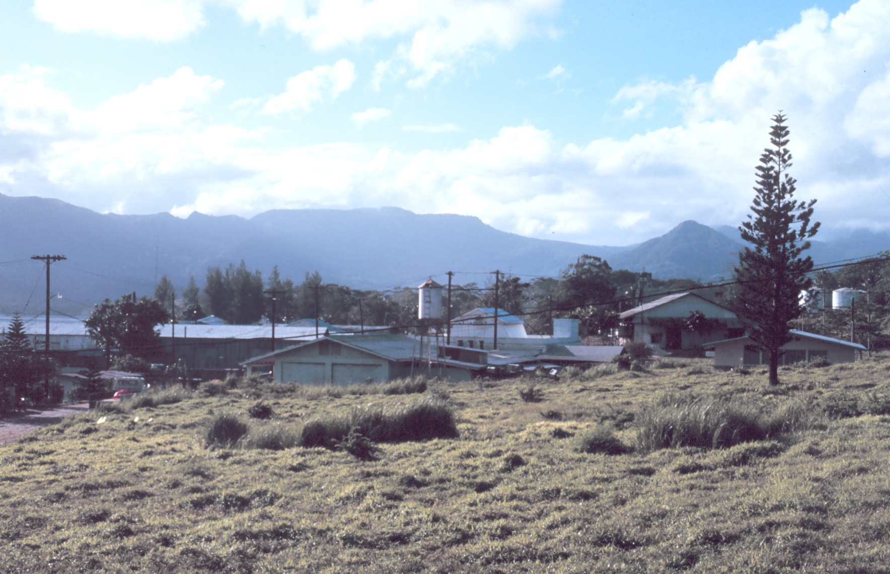 Center of Kolonia, Pohnpei (Ponape), Federated States of Micronesia